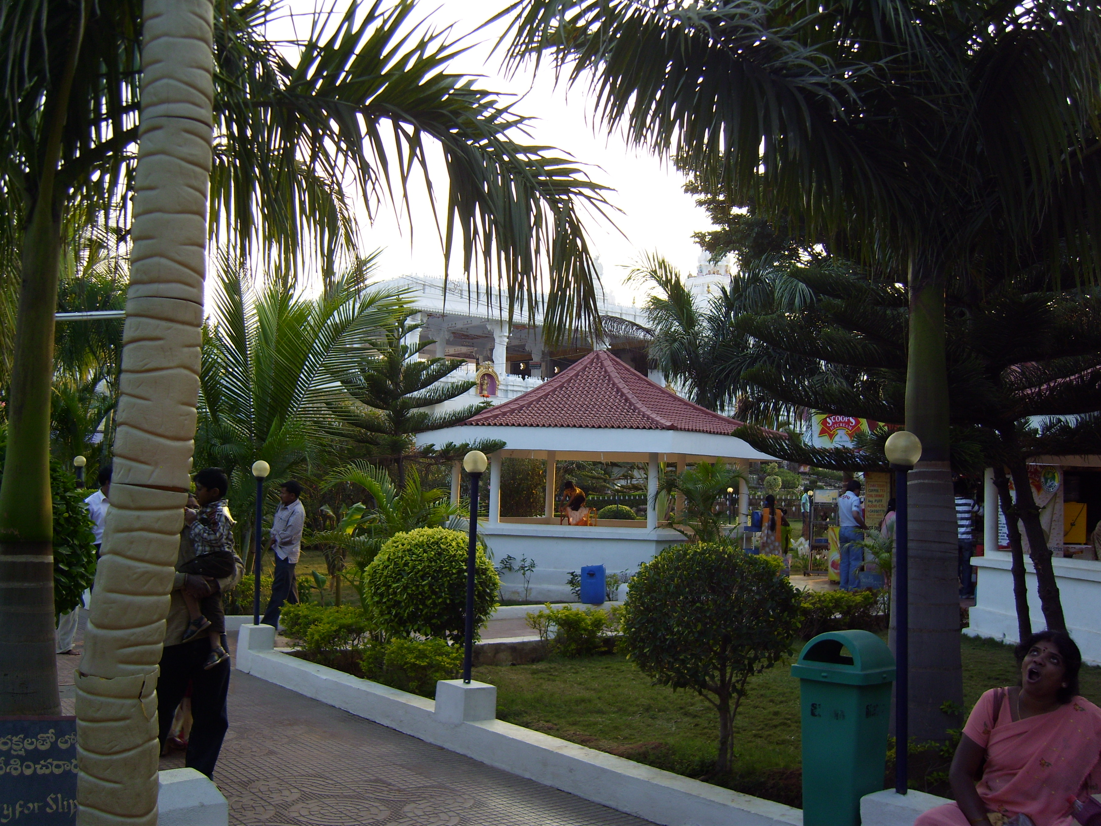 Ratnalayam Venkateswara Temple